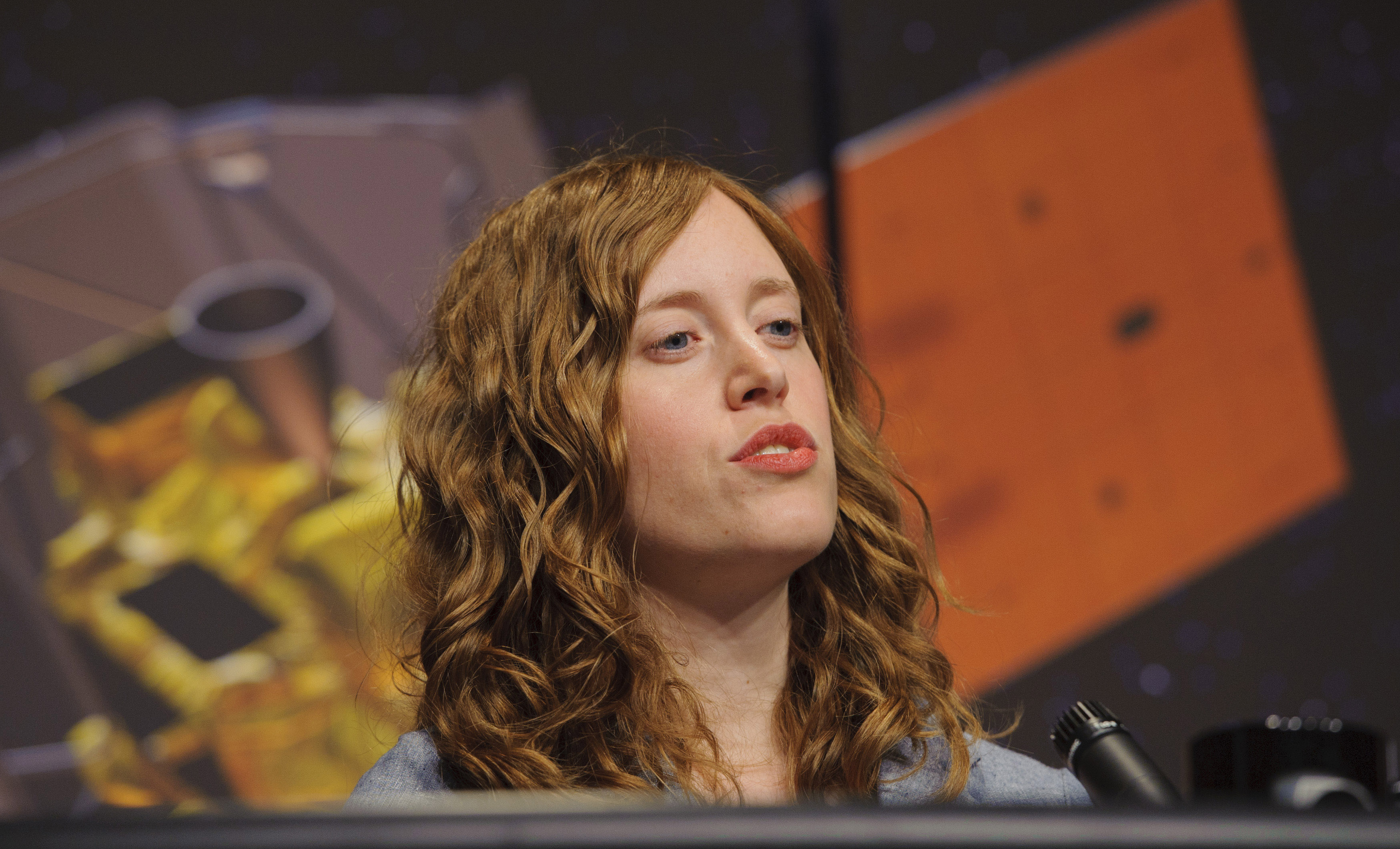 Brett W. Denevi, a scientist at the Johns Hopkins University Applied Physics Laboratory (APL) speaks during a briefing on the discoveries provided by NASA's MESSENGER spacecraft while in orbit around the planet Mercury, Thursday, June 16, 2011, at NASA Headquarters in Washington. After nearly three months in orbit about Mercury, MESSENGER's payload is providing a wealth of new information about the planet closest to the Sun. Photo Credit: (NASA/Paul E. Alers)